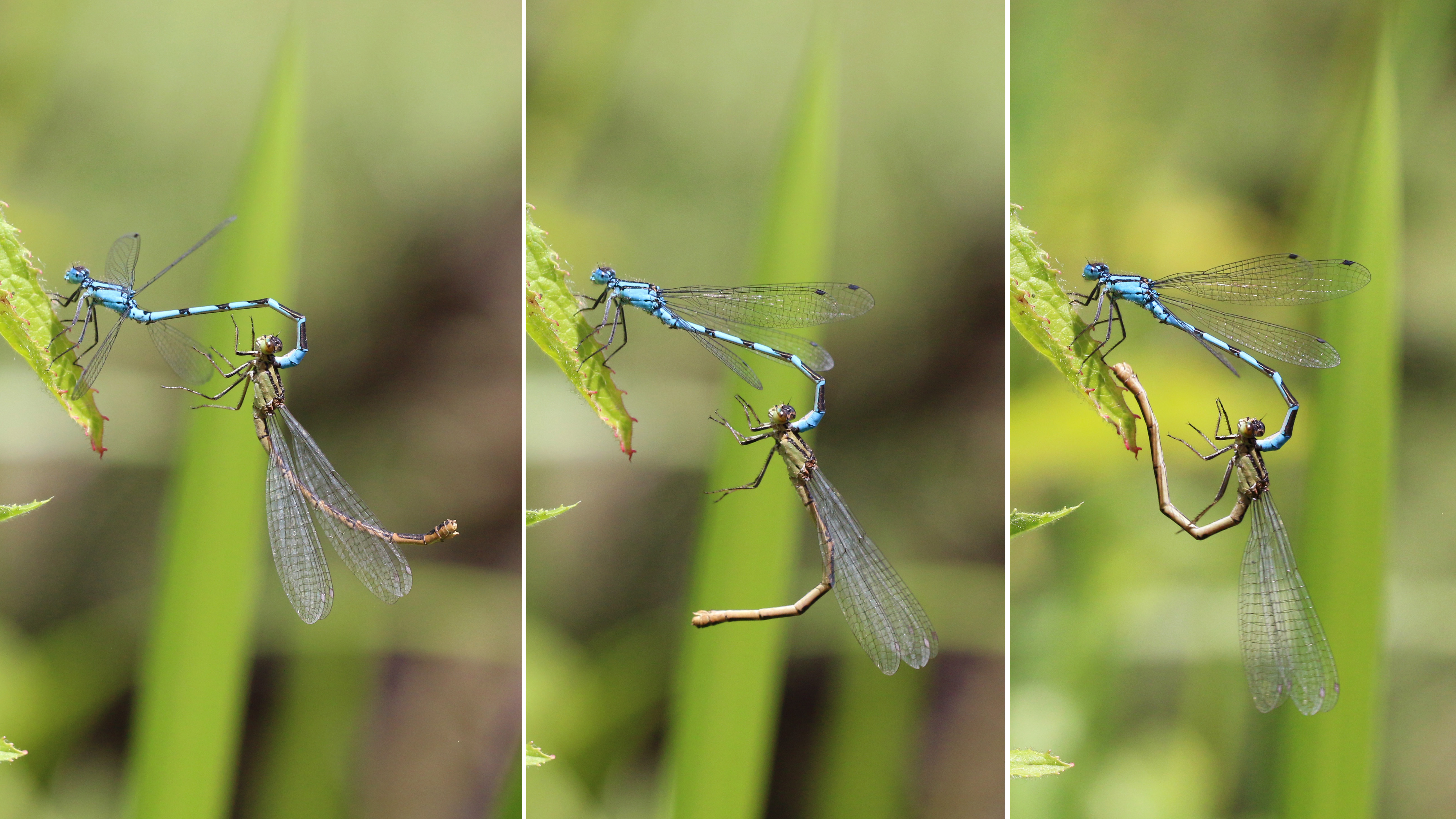 Common blue damselflies (Enallagma cyathigerum) mating, Whitecross Green Wood, Oxfordshire - composite of 3 photos showing how the female swings her abdomen to initiate pairing.